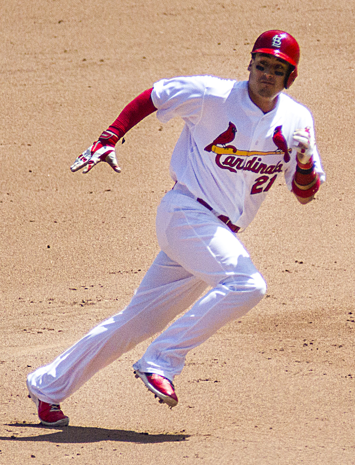 Allen Craig St.Louis Cardinals rounding 2nd.